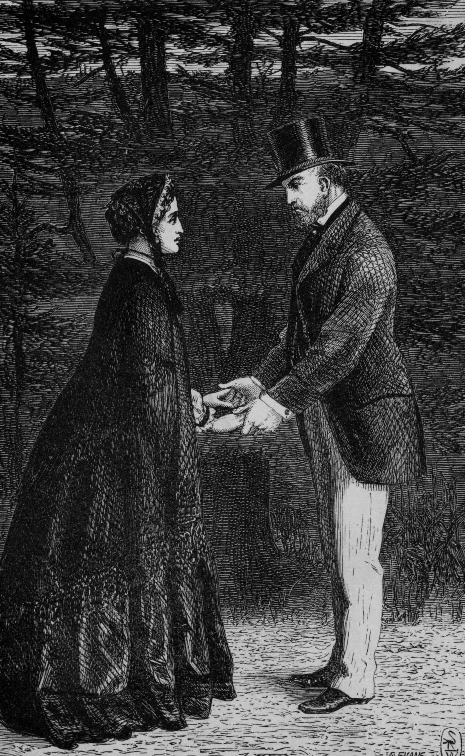 Frontispiece to the 1875 8th edition of Miss Mackenzie by Anthony Trollope. Miss Mackenzie and John Ball.